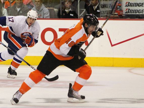 Philadelphia Flyers captain Mike Richards during a game against the New York Islanders on October 30, 2010.